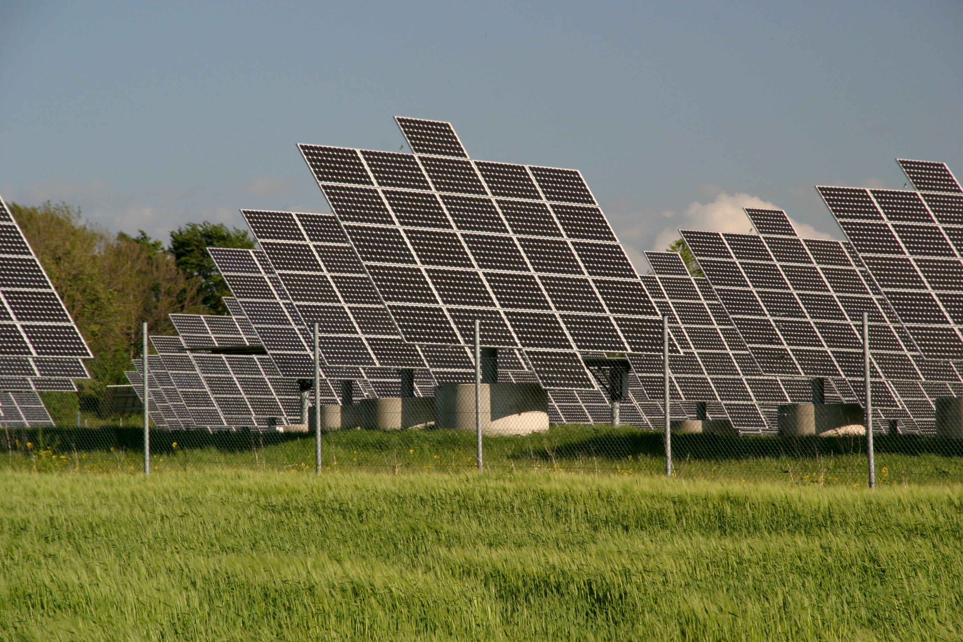 Photovoltaic array near Freiberg (Germany)